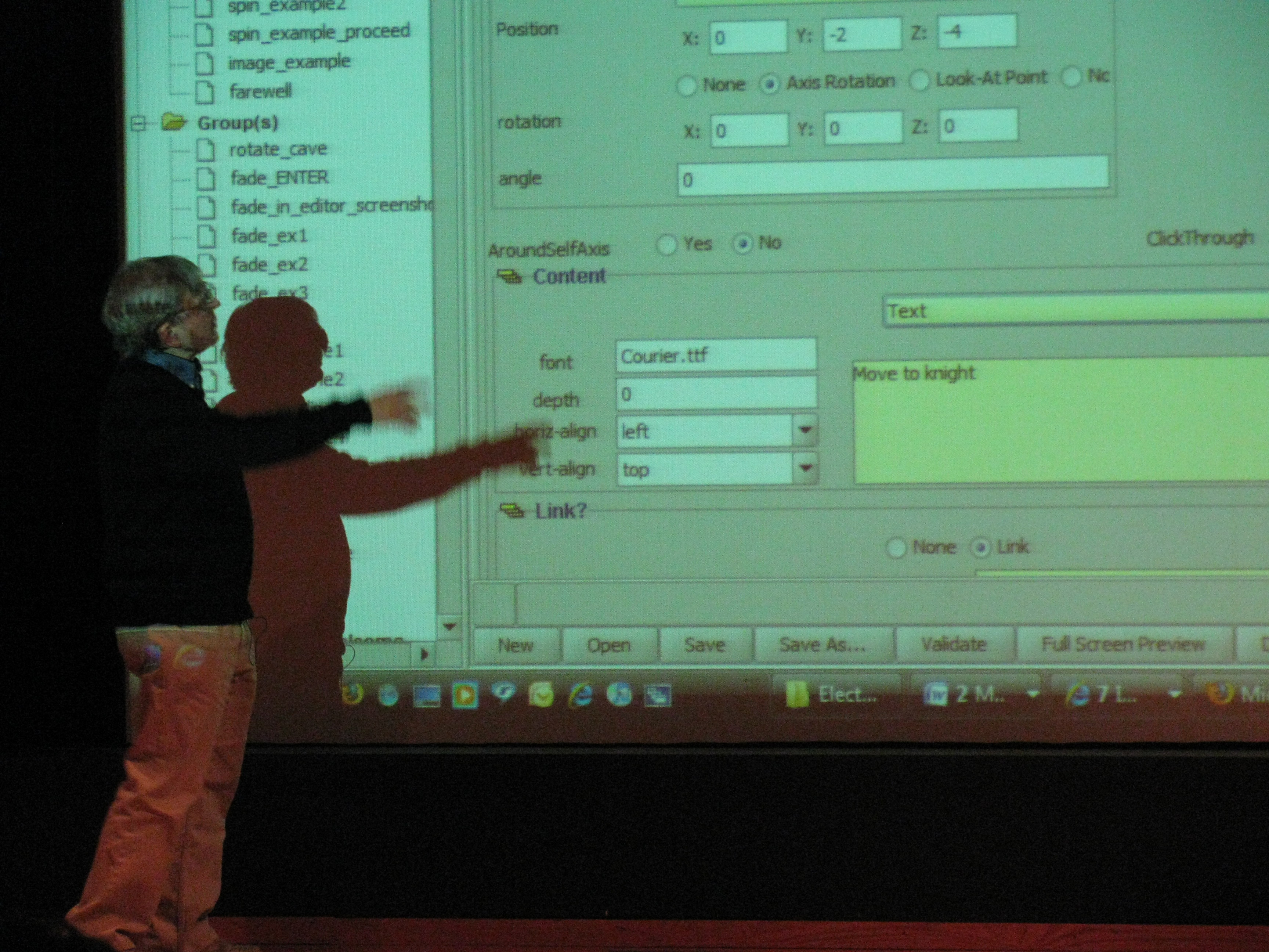 Robert Coover speaking about the CaveWriting software [1] and workshops, during a Morris Visiting Artist Residency at the University at Buffalo.